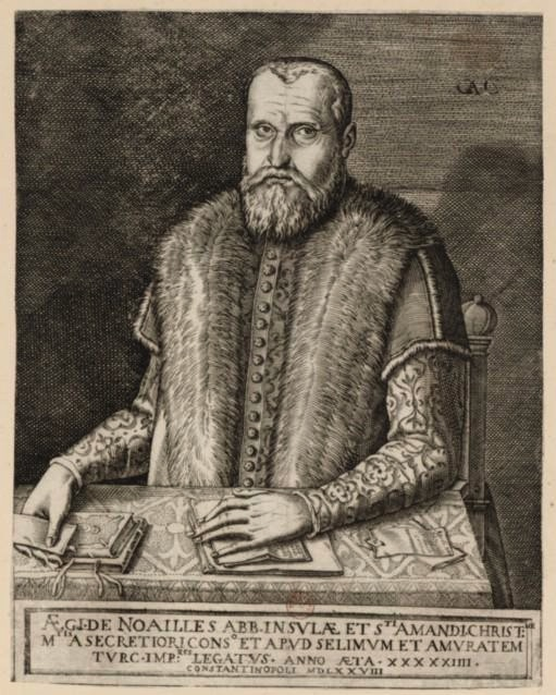 Portrait of Gilles de Noailles, French clergyman and diplomat. 16th century engraving.